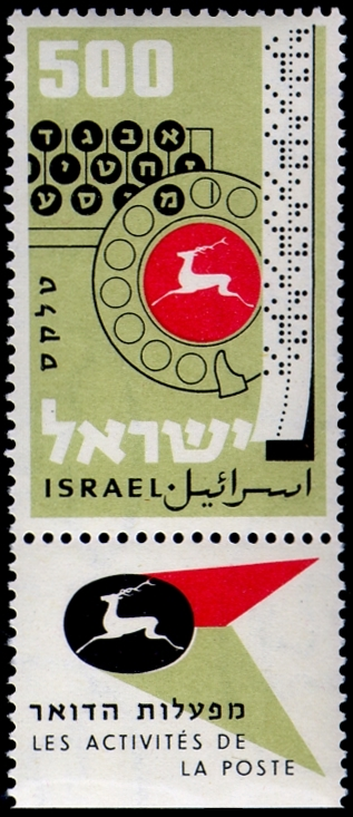 Postal Activities stamp - 500 mil - Telex. Inscription on tab: "Postal Activities"